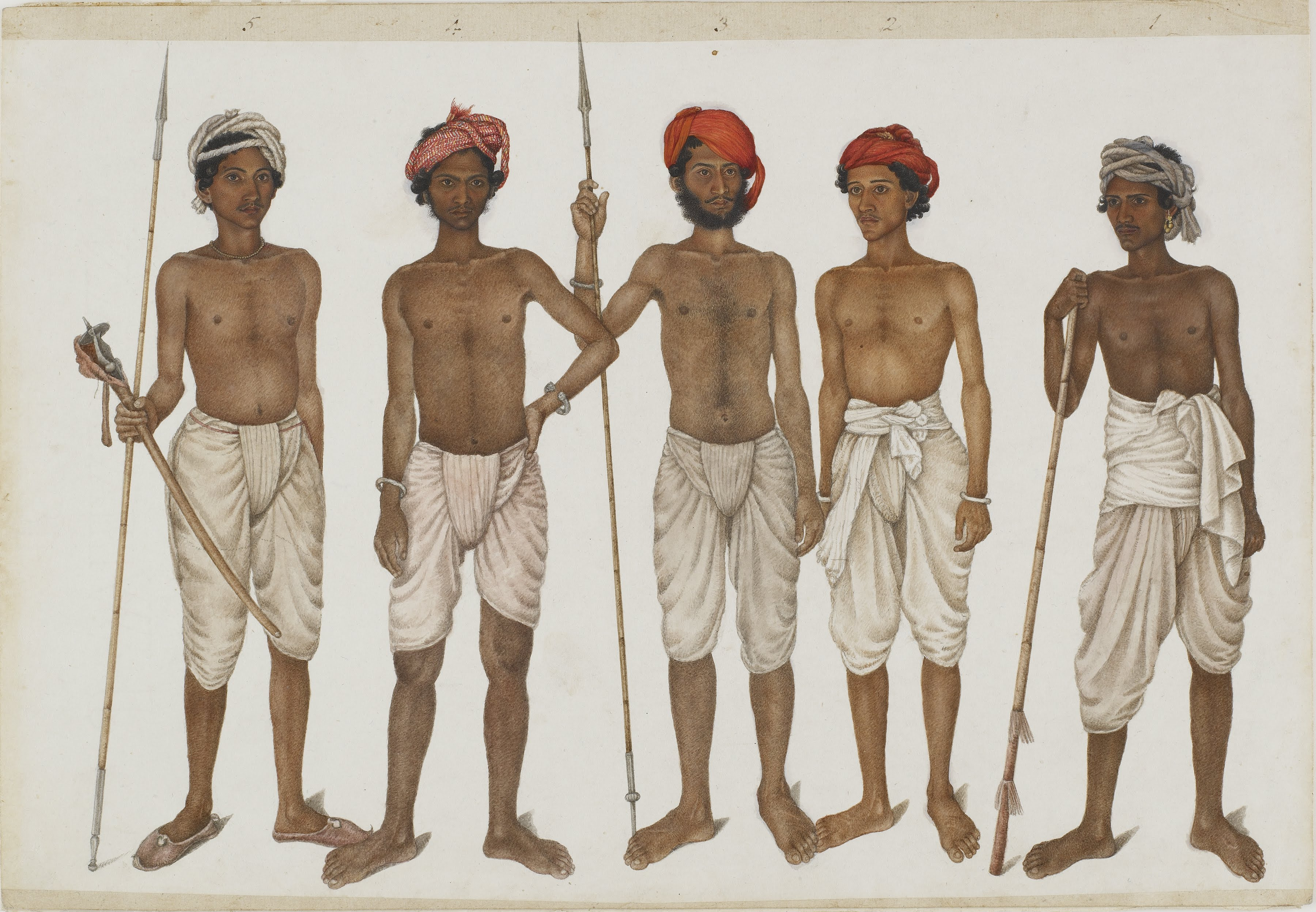 Freer description